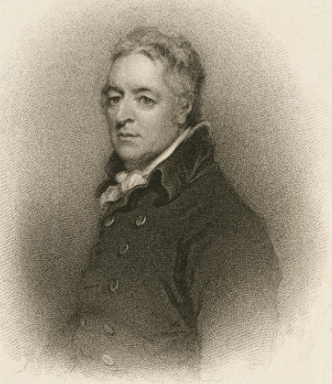 Folger Shakespeare Library Digital Image Collection Collection Folger Shakespeare Library Digital Image Collection Collection Source Creator: Agar, John Samuel, ca. 1770-ca. 1835, printmaker. Author Agar, John Samuel, ca. 1770-ca. 1835, printmaker. Source Creator Source Title: George, earl of Egremont [graphic] / from an original picture by T. Phillips ... in his own possession ; drawn by J. Wright ; engraved by J.S. Agar. CD_Title George, earl of Egremont [graphic] / from an original picture by T. Phillips ... in his own possession ; drawn by J. Wright ; engraved by J.S. Agar. Source Title Source Created or Published: [London, Eng. : T. Cadell, 1822] Imprint [London, Eng. : T. Cadell, 1822] Source Created or Published Source Call Number: ART File E32 no.1 (size XS) Call_Number ART File E32 no.1 (size XS) Source Call Number Digital Image File Name: 21693 ROOTFILE 21693 Digital Image File Name Digital Image Type: FSL collection Image_Type FSL collection Digital Image Type Hamnet Bib ID: 251617 Bibrecord001 251617 Hamnet Bib ID Hamnet Holdings ID: 326884